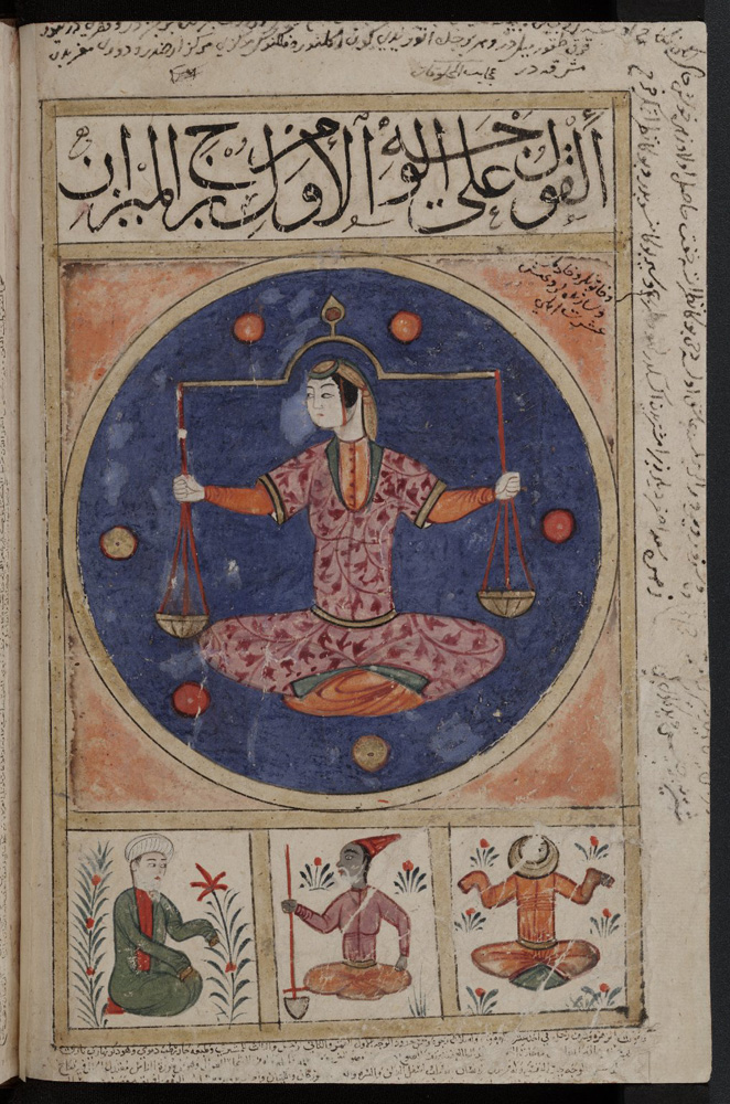 Sign of the zodiac: Libra, or al-Mīzān. Page from a manuscript known as Kitab al-bulhan or "Book of Wonders" held at the Bodelian Library. Shelfmark: MS. Bodl. Or. 133